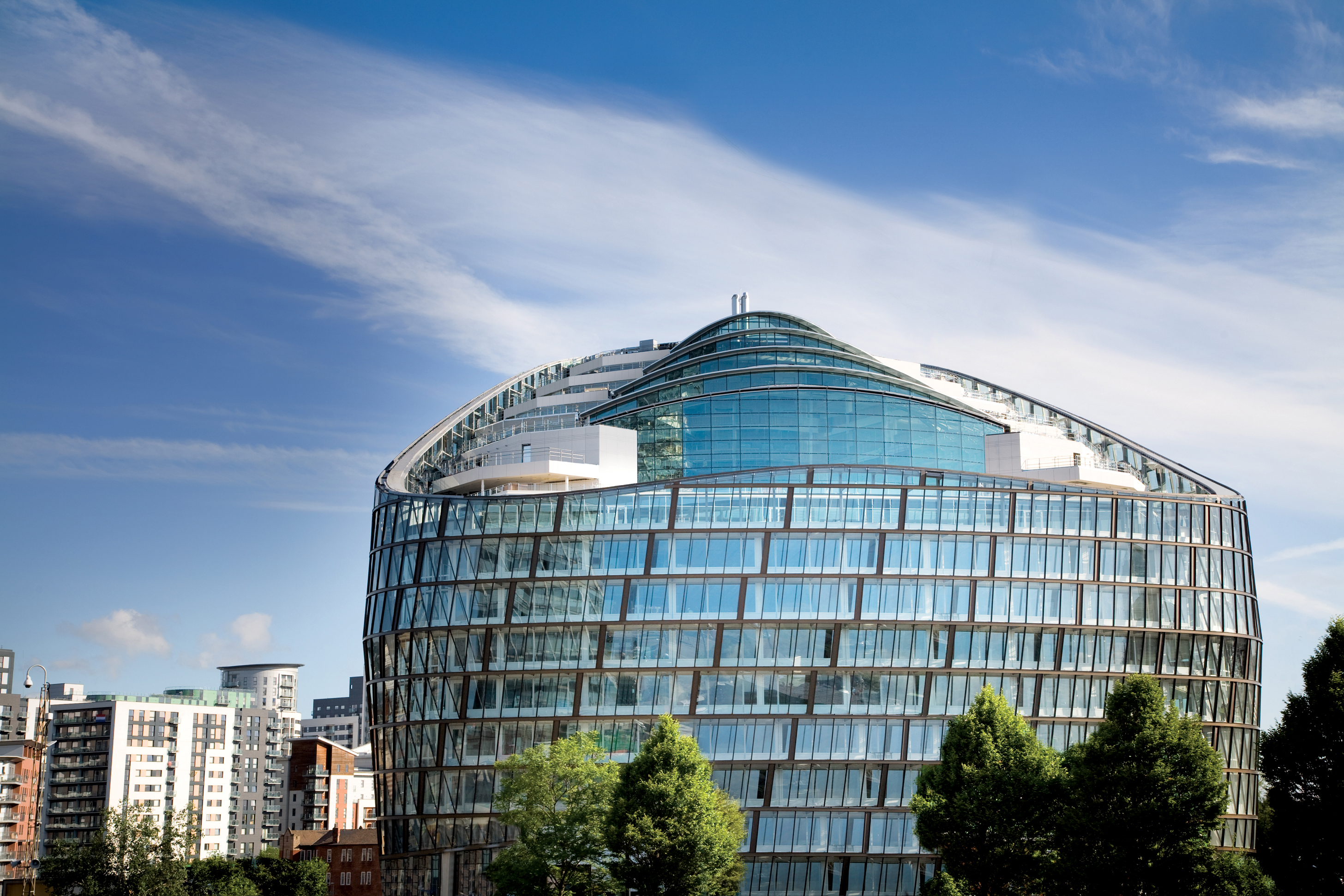 Angel Square, Manchester south façade